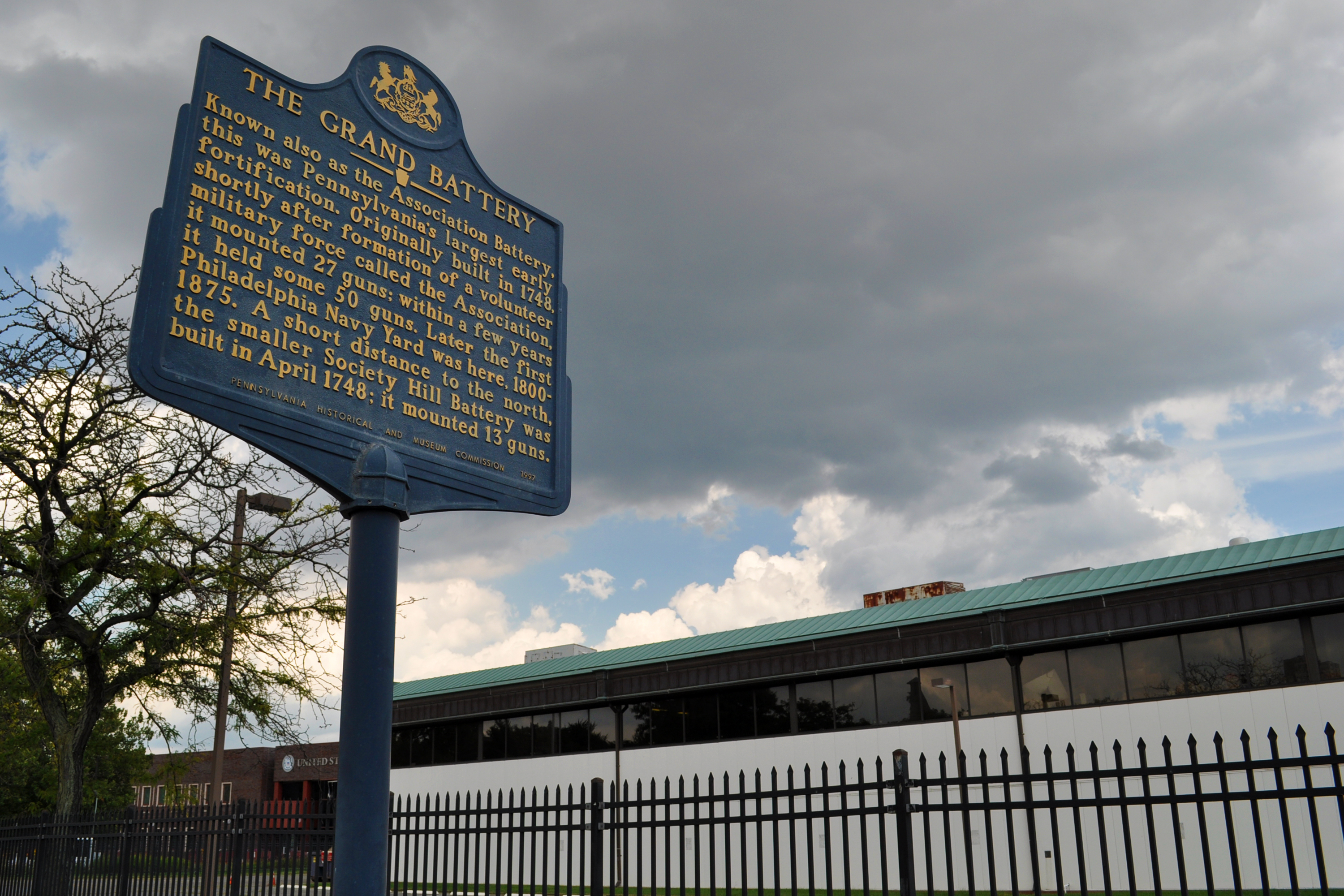 The Grand Battery. Known also as the Association Battery, this was Pennsylvania's largest early fortification. Originally built in 1748, shortly after formation of a volunteer military force called the Association, it mounted 27 guns; within a few years it held some 50 guns. Later the first Philadelphia Navy Yard was here, 1800-1875. A short distance to the north, the smaller Society Hill Battery was built in April 1748; it mounted 13 guns. (Historical Marker at S Columbus Blvd at US Coast Guard Station Philadelphia PA 19147 - PA Historical & Museum Commission 1997)